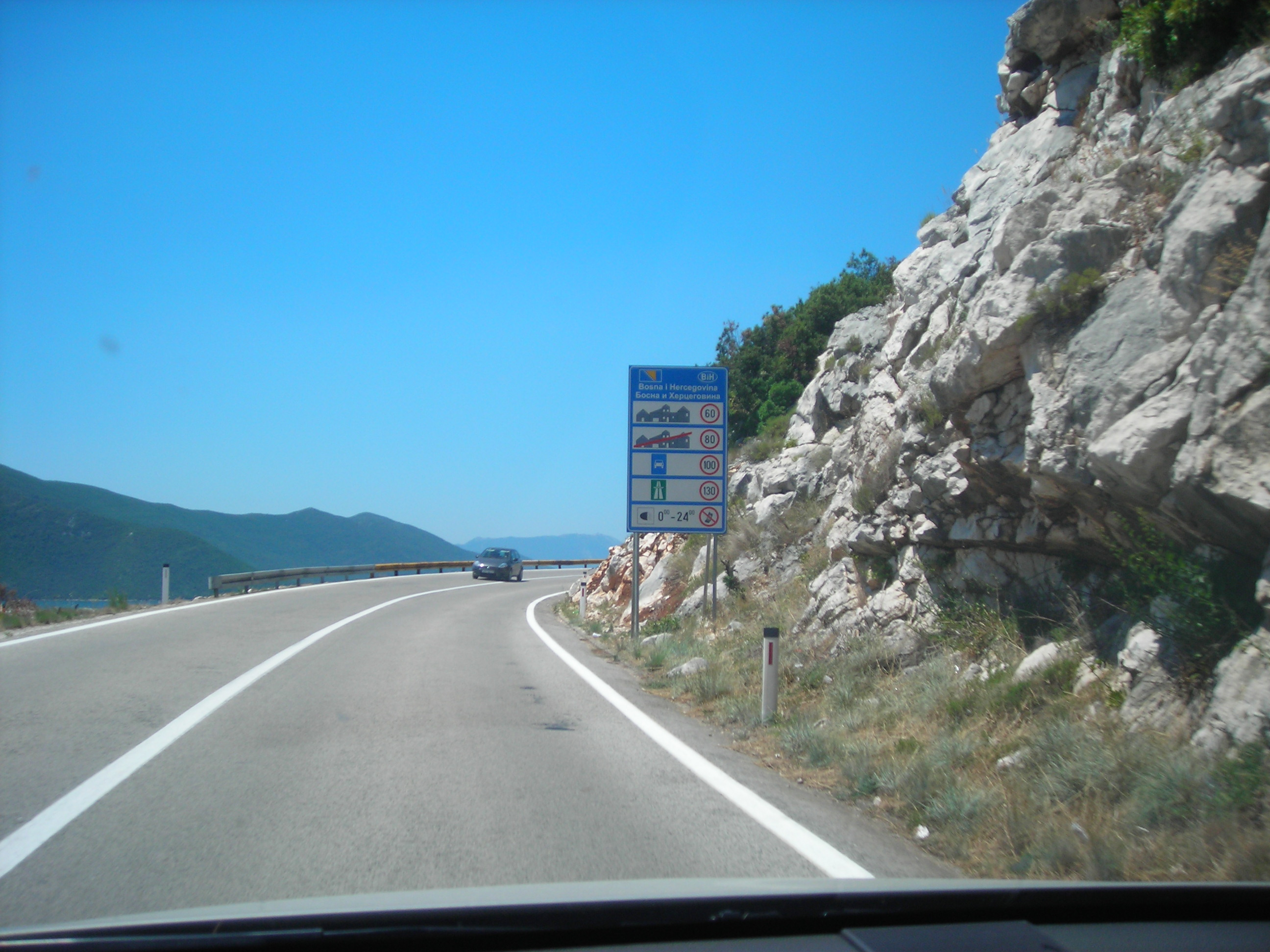 Road M2/E65 south of Neum, Bosnia-Herzegovina, near the border from Croatia